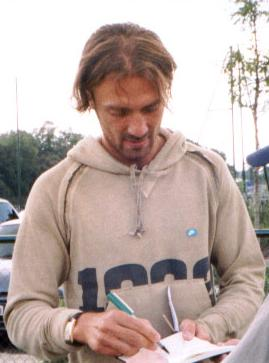 Meeting with Dugarry